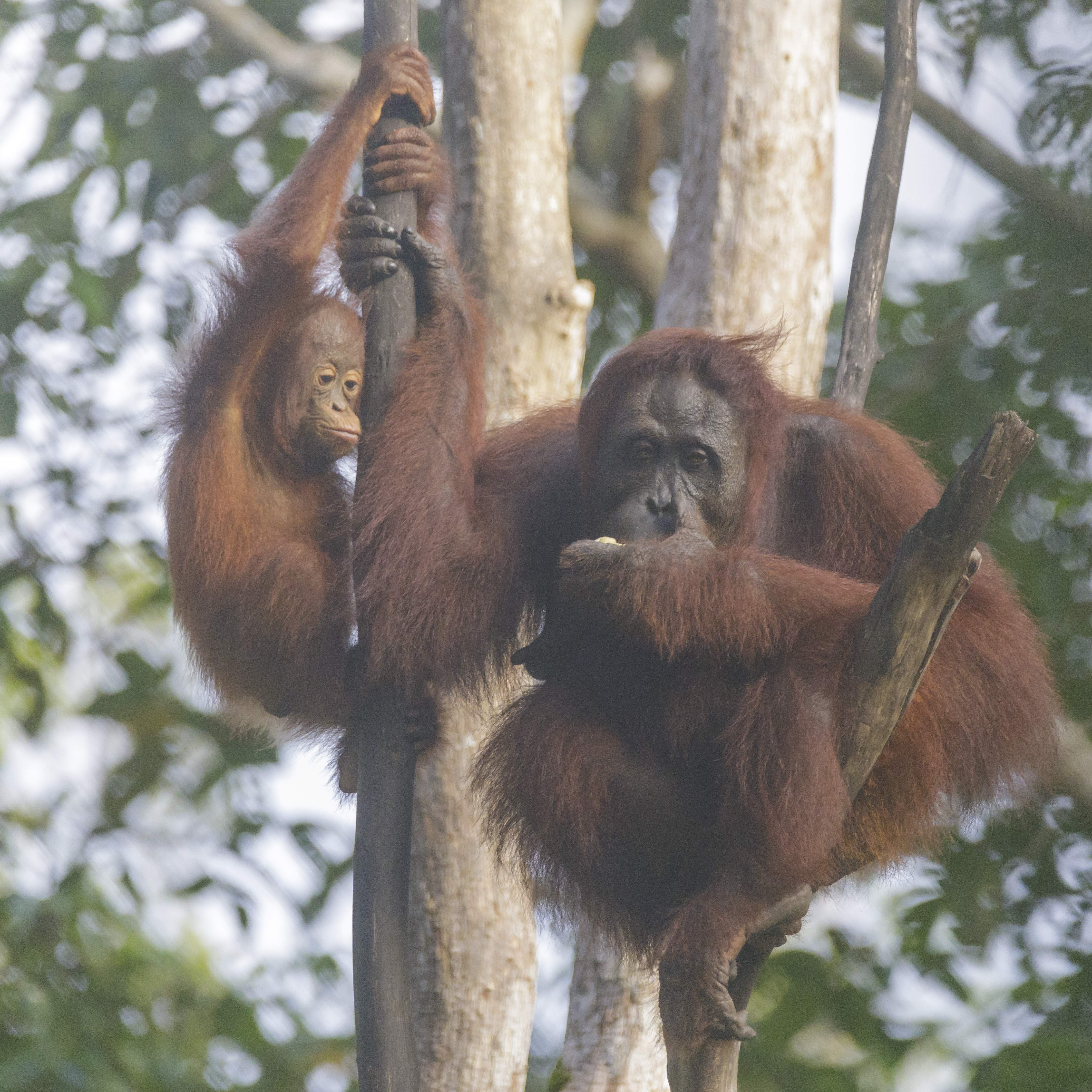 Bornean orangutan (Pongo pygmaeus), Tanjung Putting National Park - unlike other great apes, such as chimpanzees, gorillas and bonobos, these gangly guys don’t like to live in groups. A female will usually have a baby (or two) with her, but males like to be alone - taken during a photo trip to Indonesia in 2018 - by Thomas Fuhrmann - see more pictures on